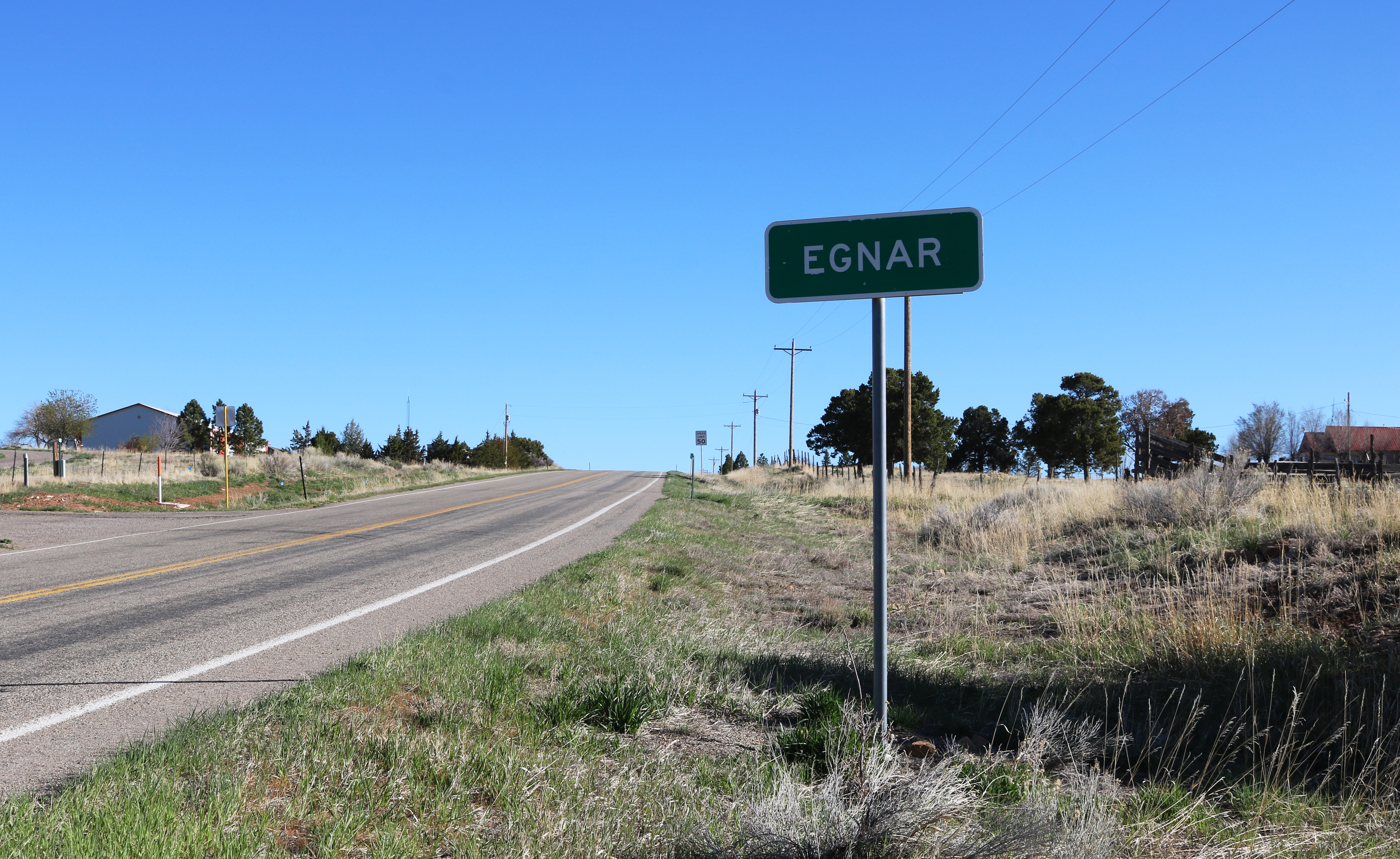 Egnar, Colorado. The view is looking north-northeast along Colorado State Highway 141.